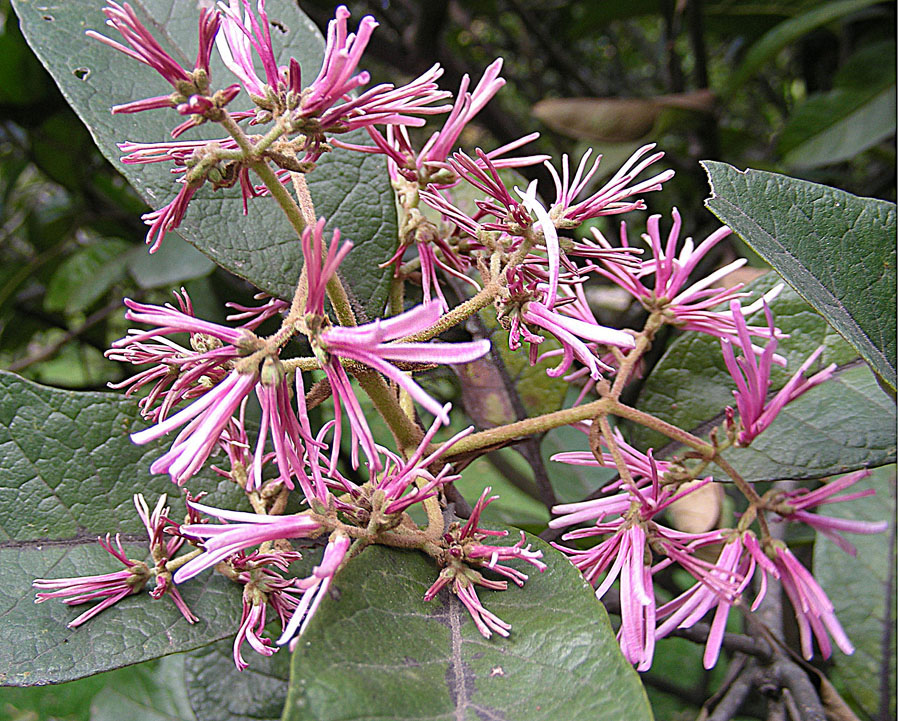 Flowers of Chionanthus pubescens (Pink Fringe Tree) in Bogota Botanical Gardens